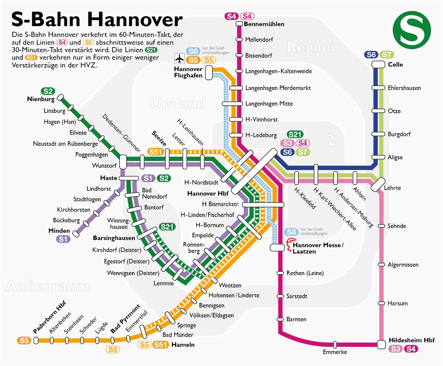 Map of Hannover S-Bahn